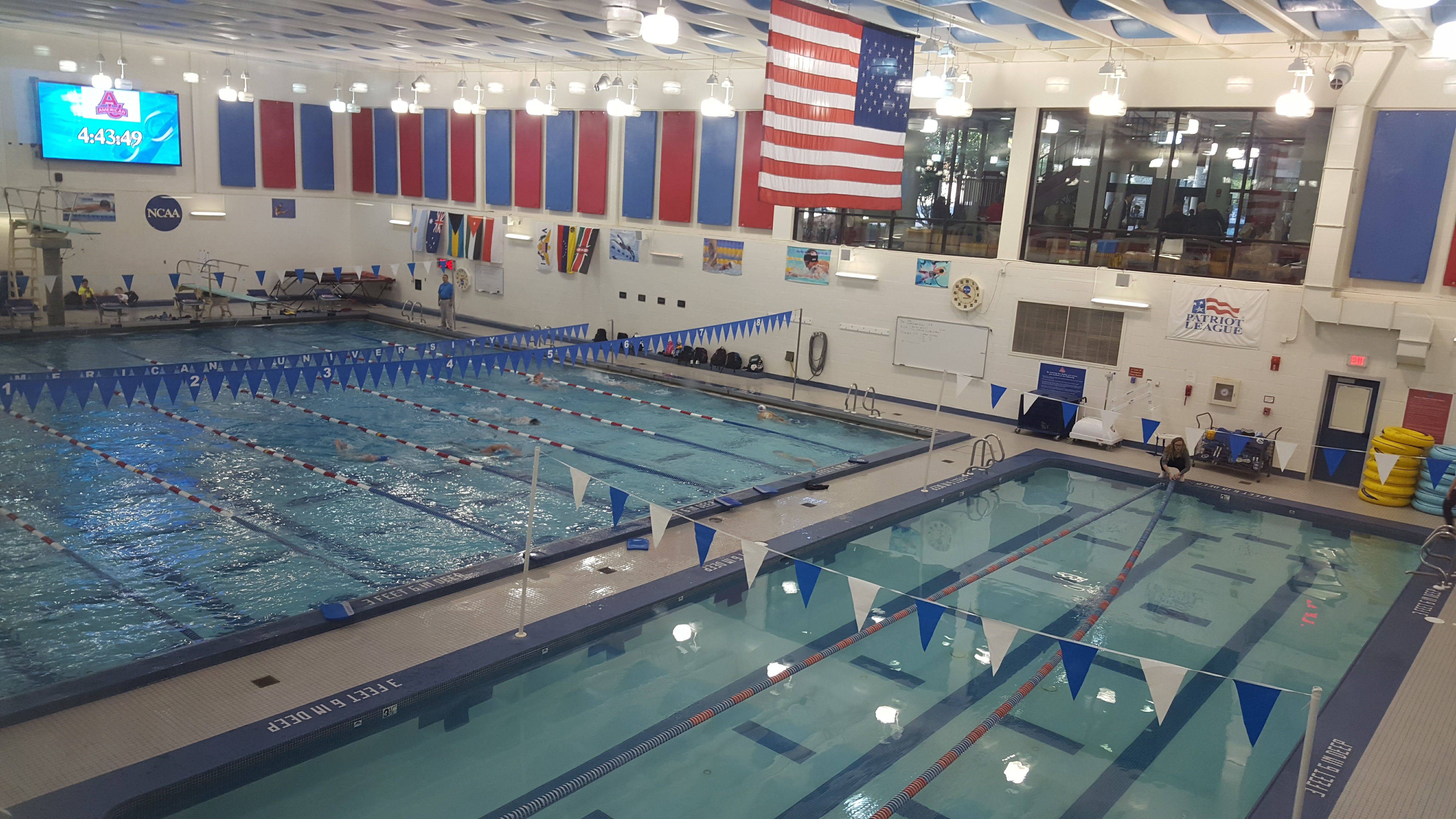 Olympic size swimming pool located in Bender